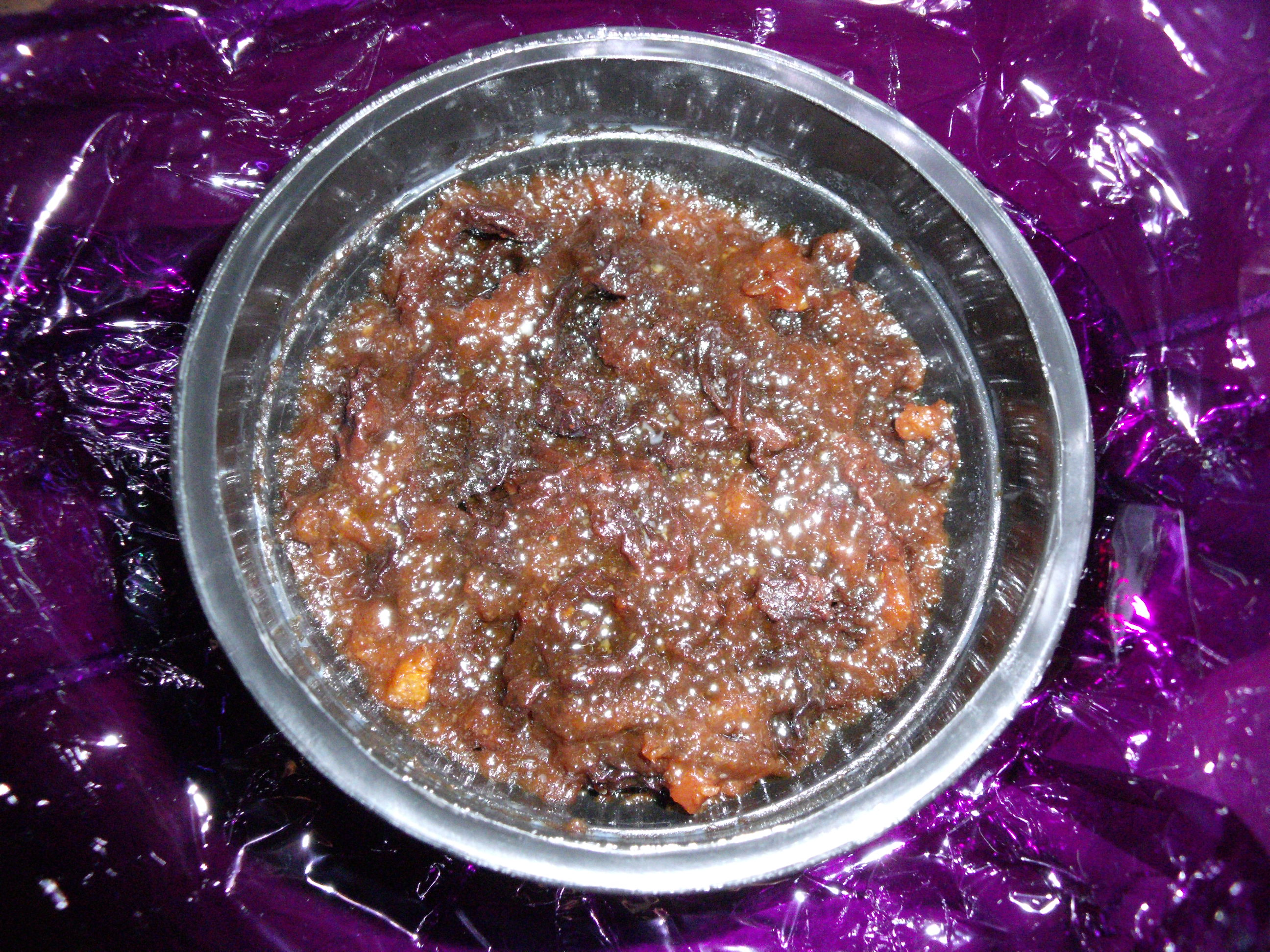 Christmas pudding from Bracknell, Berkshire.